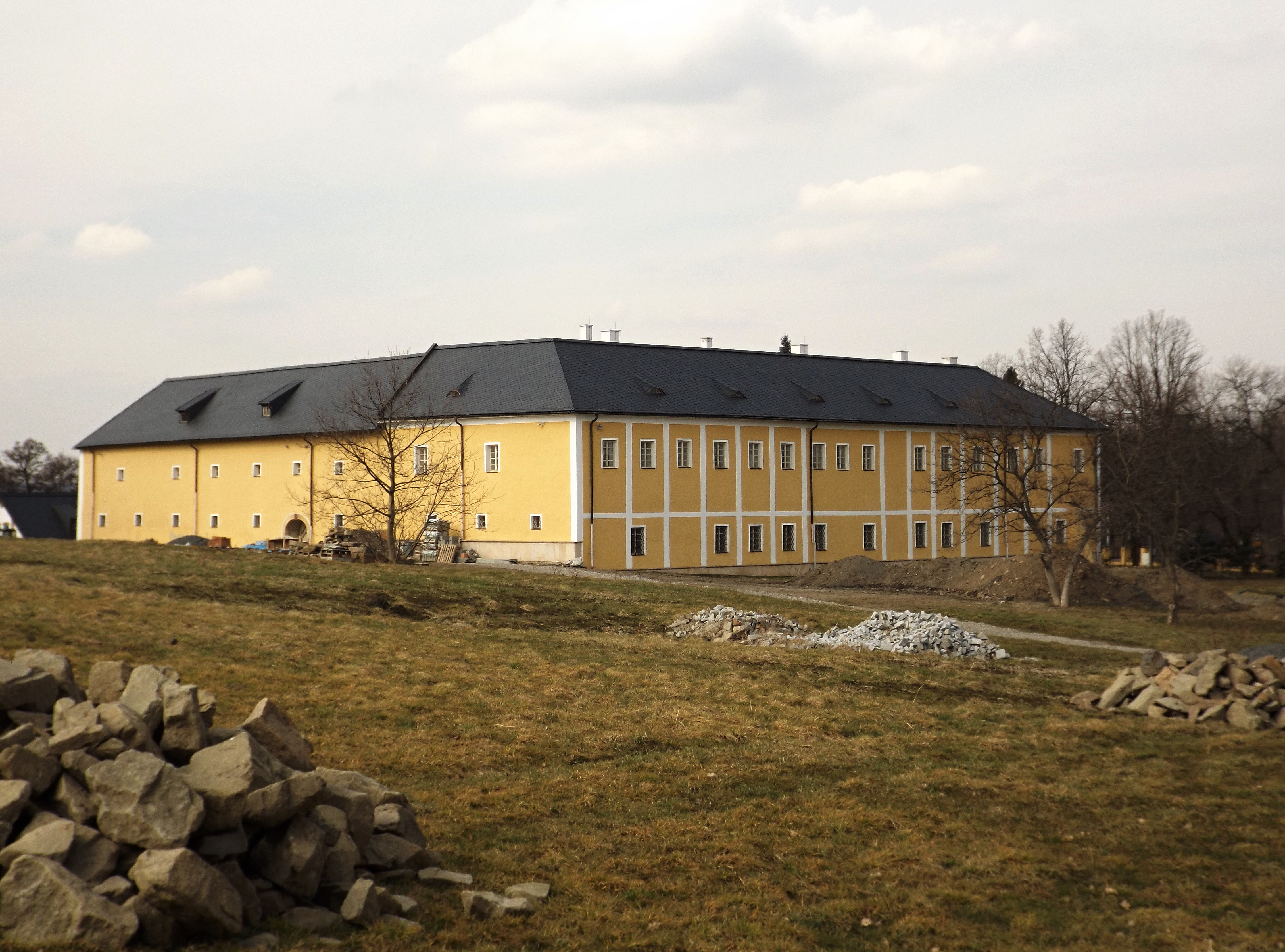 Chateau in Rychvald, Karviná District, Moravian-Silesian Region, Czech Republic, view form southeast.